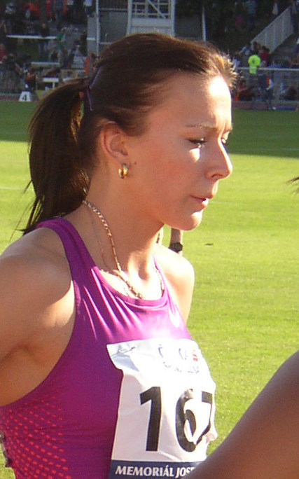 Athlete Yuliya Chermoshanskaya of Russia before her start in women's 200 m run at 17th edition of the Josef Odložil Memorial (EAA Premium Meeting, Na Julisce Stadium, Prague, Czech Republic, 14 June 2010). Chermoshanskaya won the race in 23.01 s.